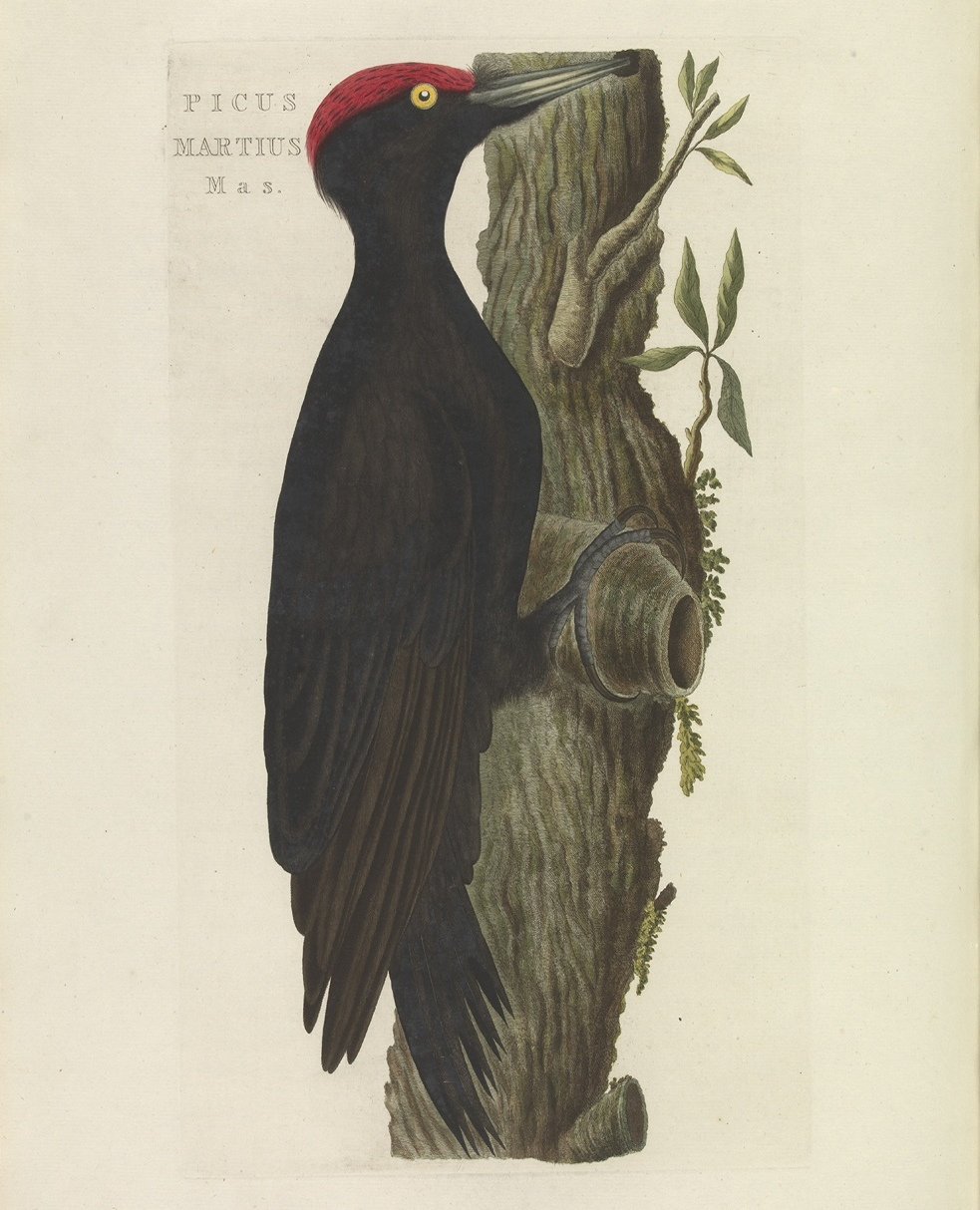 Plate 196 from the Nederlandsche vogelen by Nozeman and Sepp.